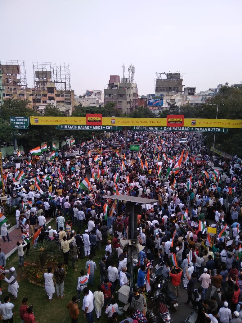 Millineum March at Dharna Chowk near Indira Park. Picture taken from the camera of my friend Mohammed Rahman Pasha.